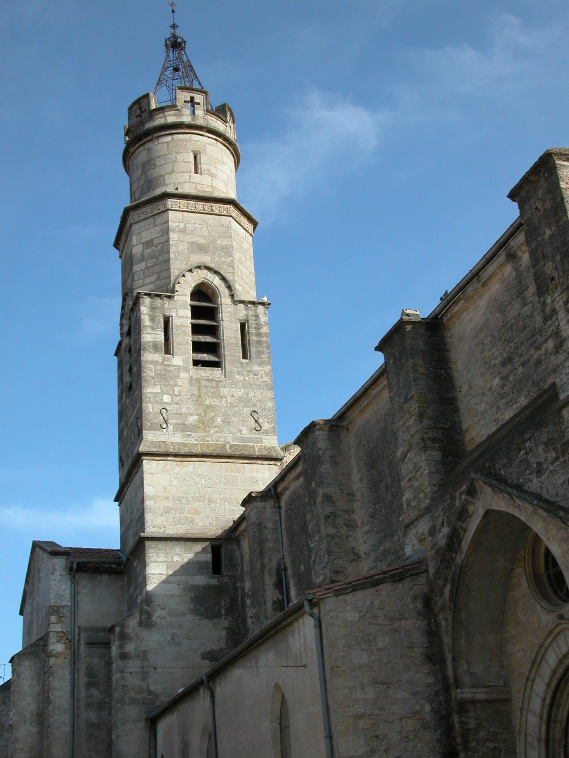 Church Saint-Saturnin of Cazouls-lès-Béziers (Hérault)